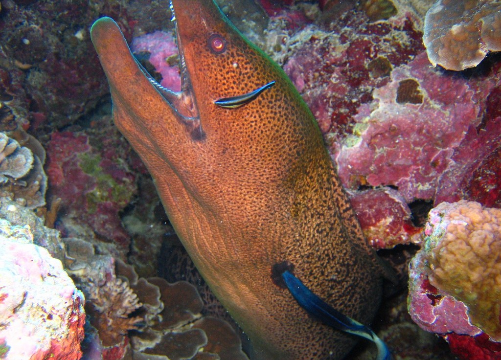 A large Yellow-margined Moray Eel (Gymnothorax flavimarginatus) with cleanerfish. North Horn, Osprey Reef, Coral Sea176916837